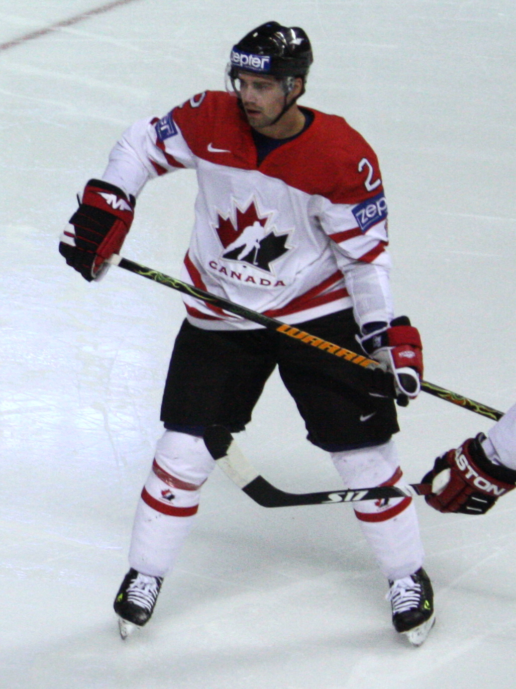 Canadian defenceman Dan Hamhuis during the 2008 World Championships.